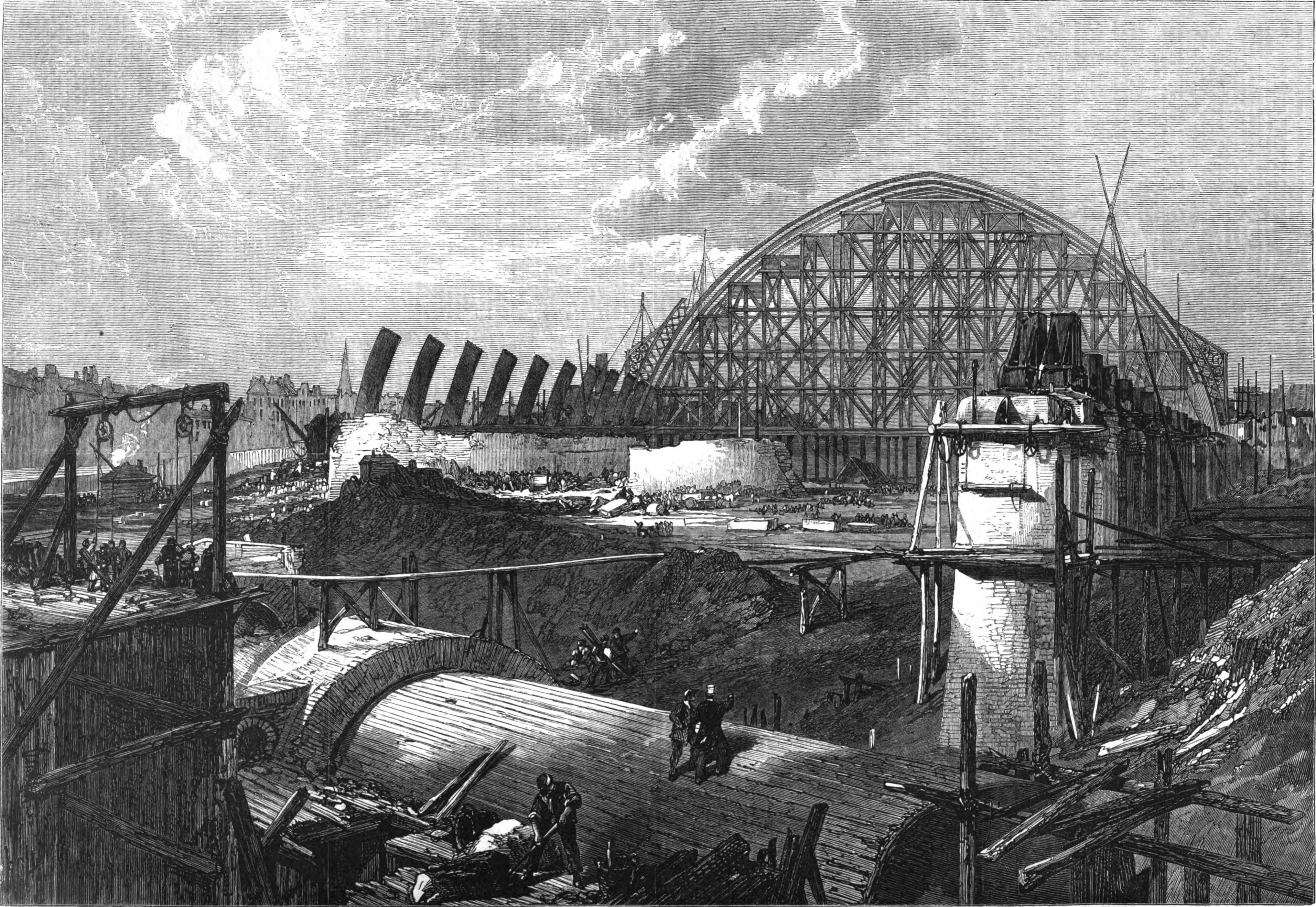 St Pancras train shed under construction, engraved for the Illustrated London News, 15 February 1868, from a viewpoint just south of the churchyard. The timber scaffolding will shortly move forward to allow work to begin on the next of the arches, the stubs of which are already in place. The giant half-buried pipe carries the Fleet sewer.